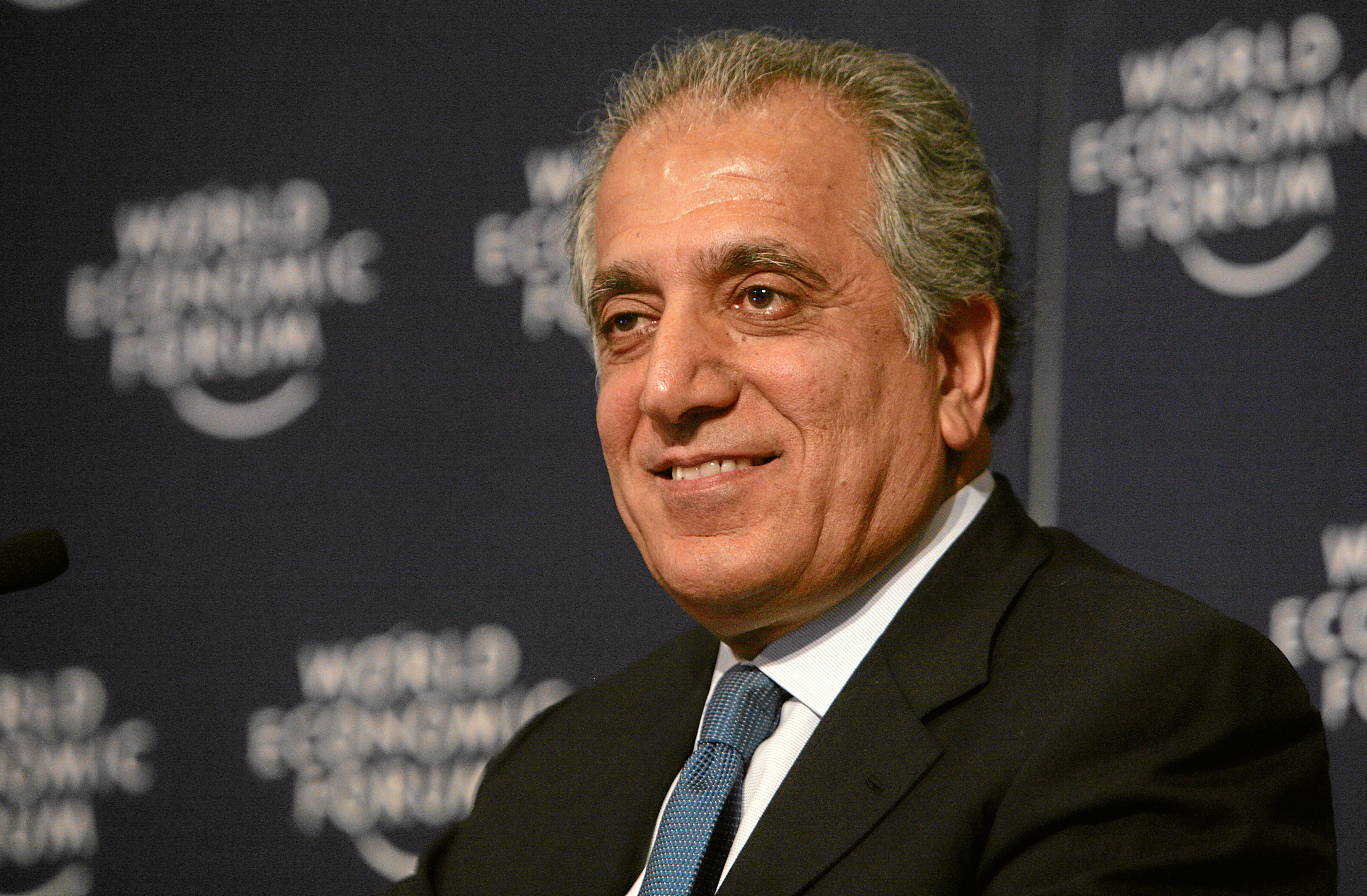 DAVOS/SWITZERLAND, 26JAN08 - Zalmay Khalizad, US Ambassdor and Permanet Representative to the United Nations, New York, captured during the session 'Understanding Iran's Foreign Policy' at the Annual Meeting 2008 of the World Economic Forum in Davos, Switzerland, January 26, 2008.